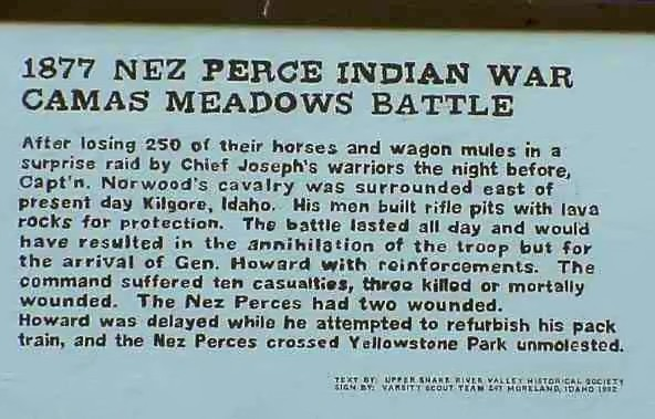 Camas Meadows, Idaho, was the scene of a fight in the Nez Perce war